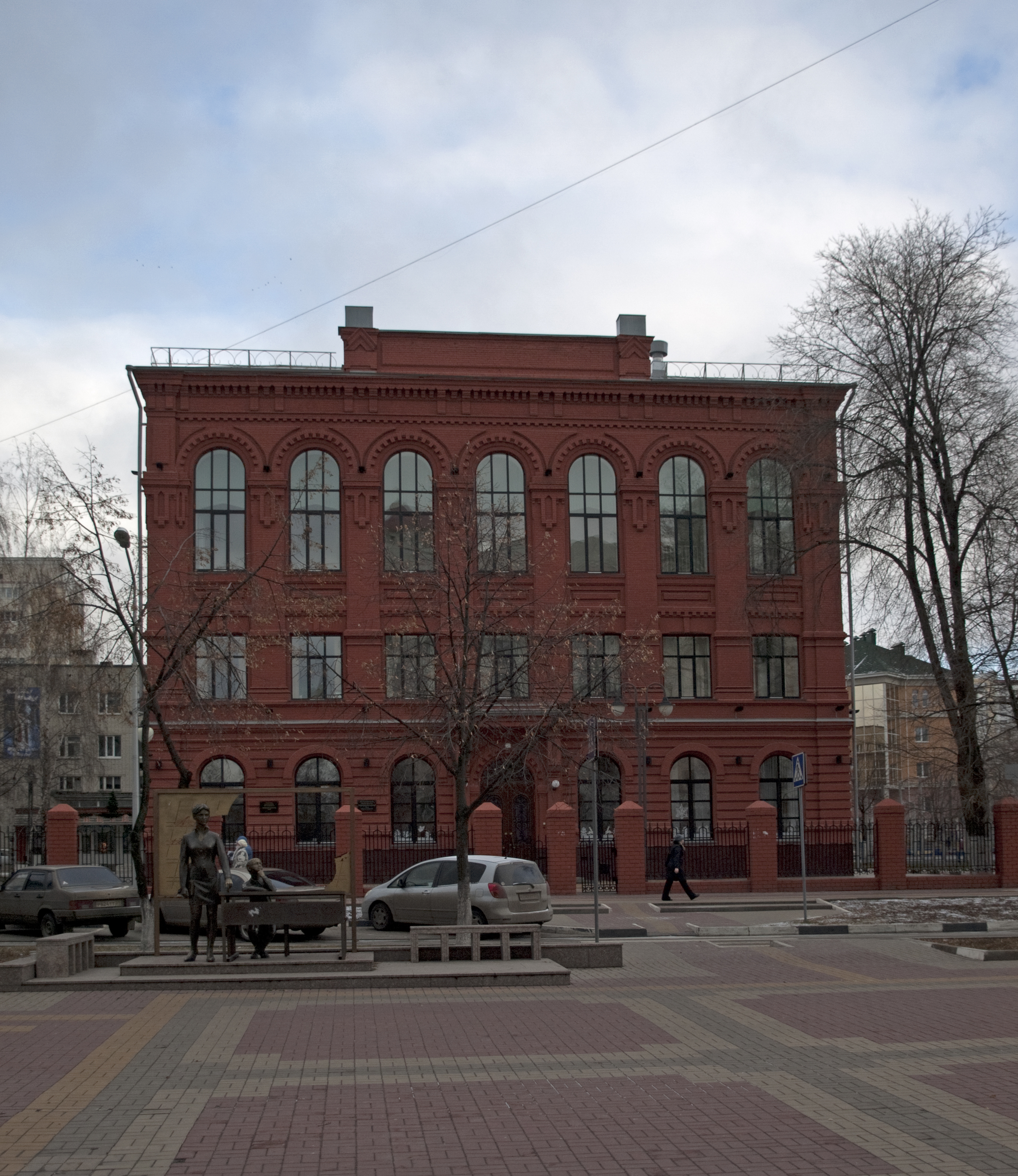 Former girls's school, Narodny Boulevard 74, Belgorod